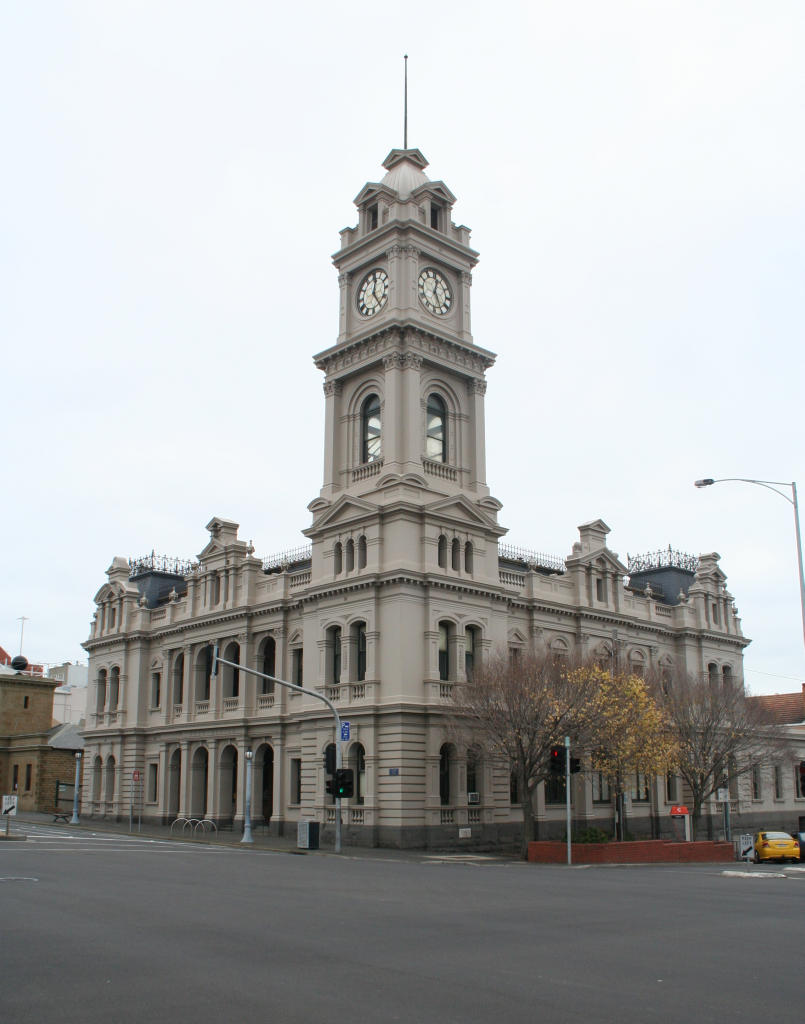 Geelong Post Office (Victoria, Australia)